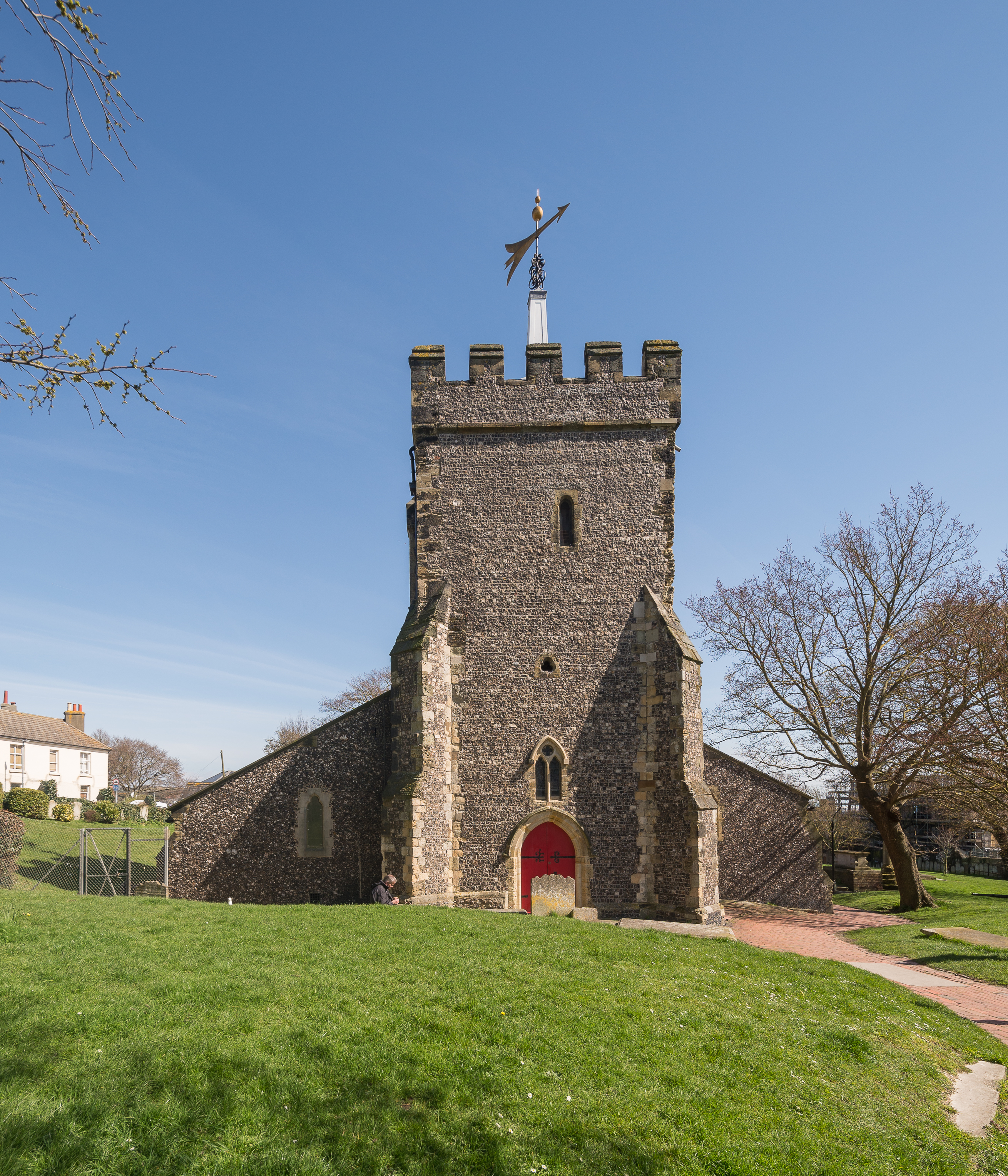 Church Of St Nicholas Of Myra Wikidata has entry Q17549562 with data related to this item.